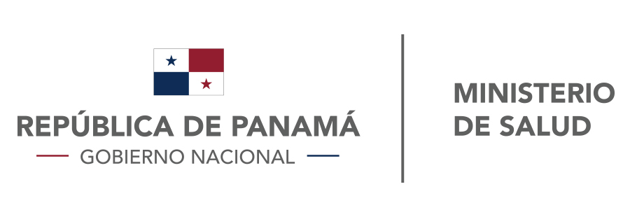 Logo of the Healt Ministry of Panama